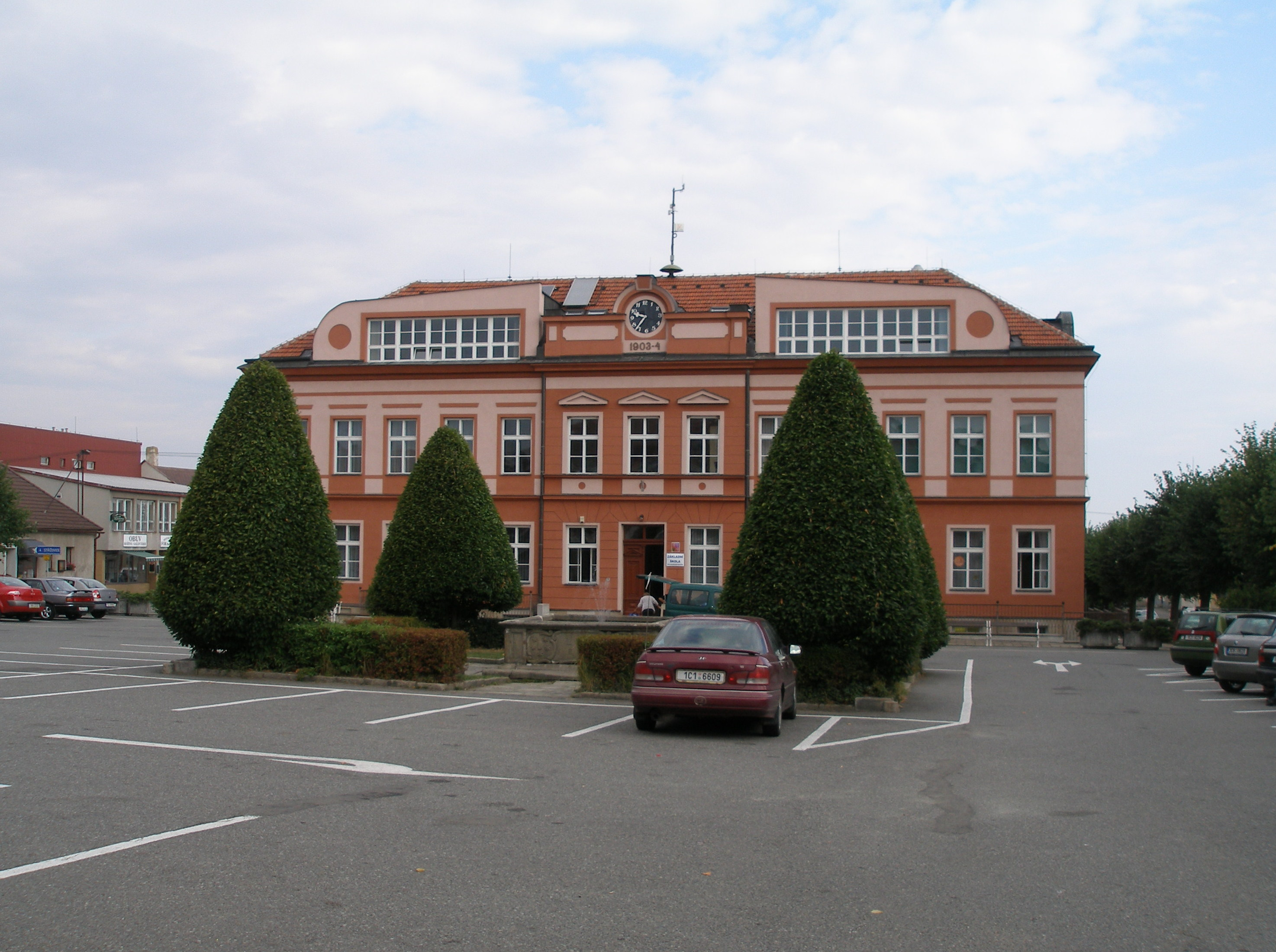 Sir Nicholas Winton's school on the square in Kunžak (Southern Bohemia)